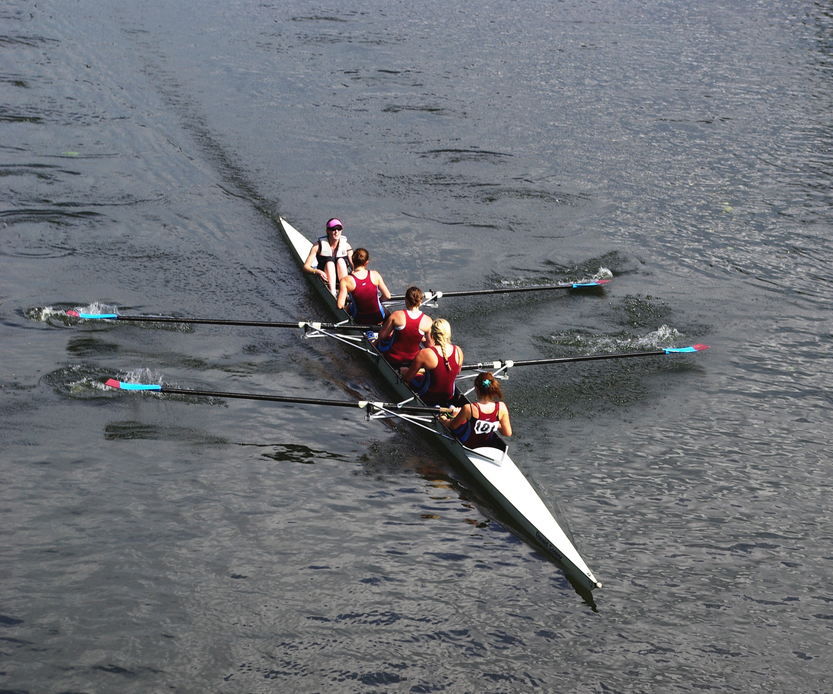 Durham Regatta womens coxed 4s